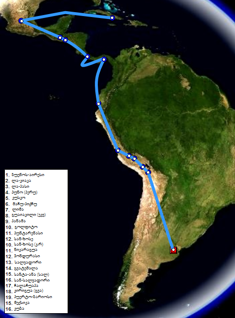 Map of the second journey of Ernesto Guevara. 1953-56